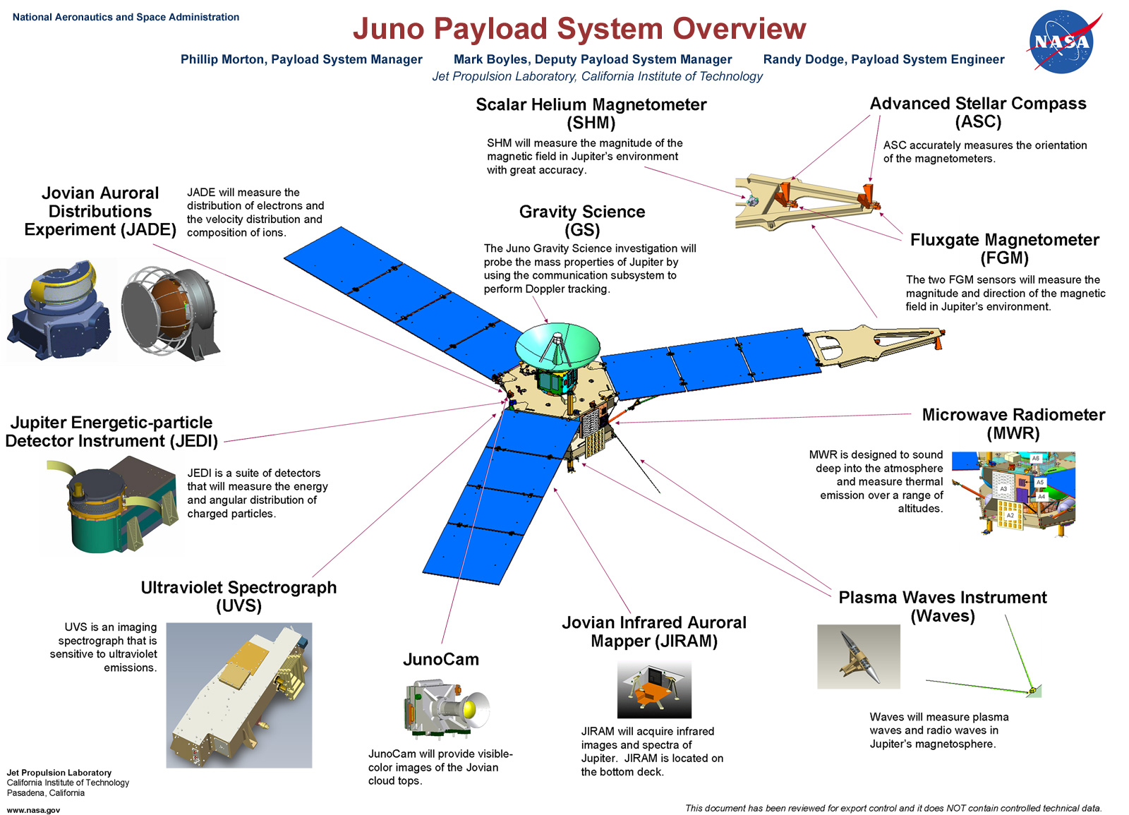 Where Junos instrumentes are attached at the spaceprobe